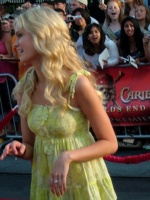 A picture of her.